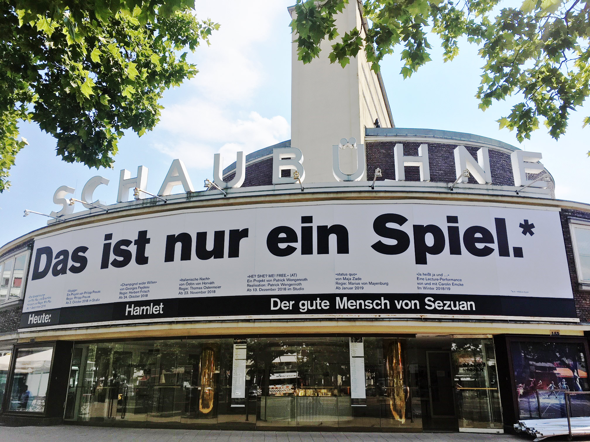 Schaubühne in July 2018